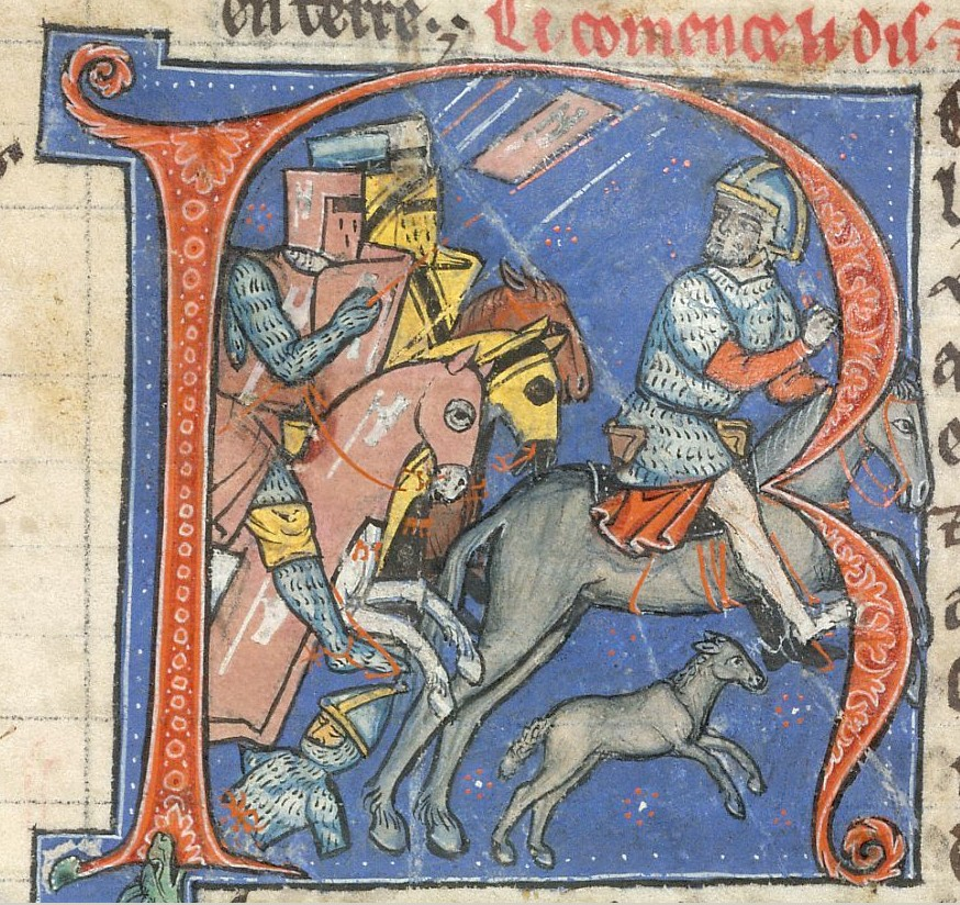 Historiated initial 'R'(eines) with a mail-coated Nureddin, the Sultan of Damascus, with bare legs and an open helmet, fleeing on horseback with a foal underfoot from two knights (Godfrey Martel and Hugh de Lusignan the elder) pursuing him on war horses, trampling a dismembered torso.